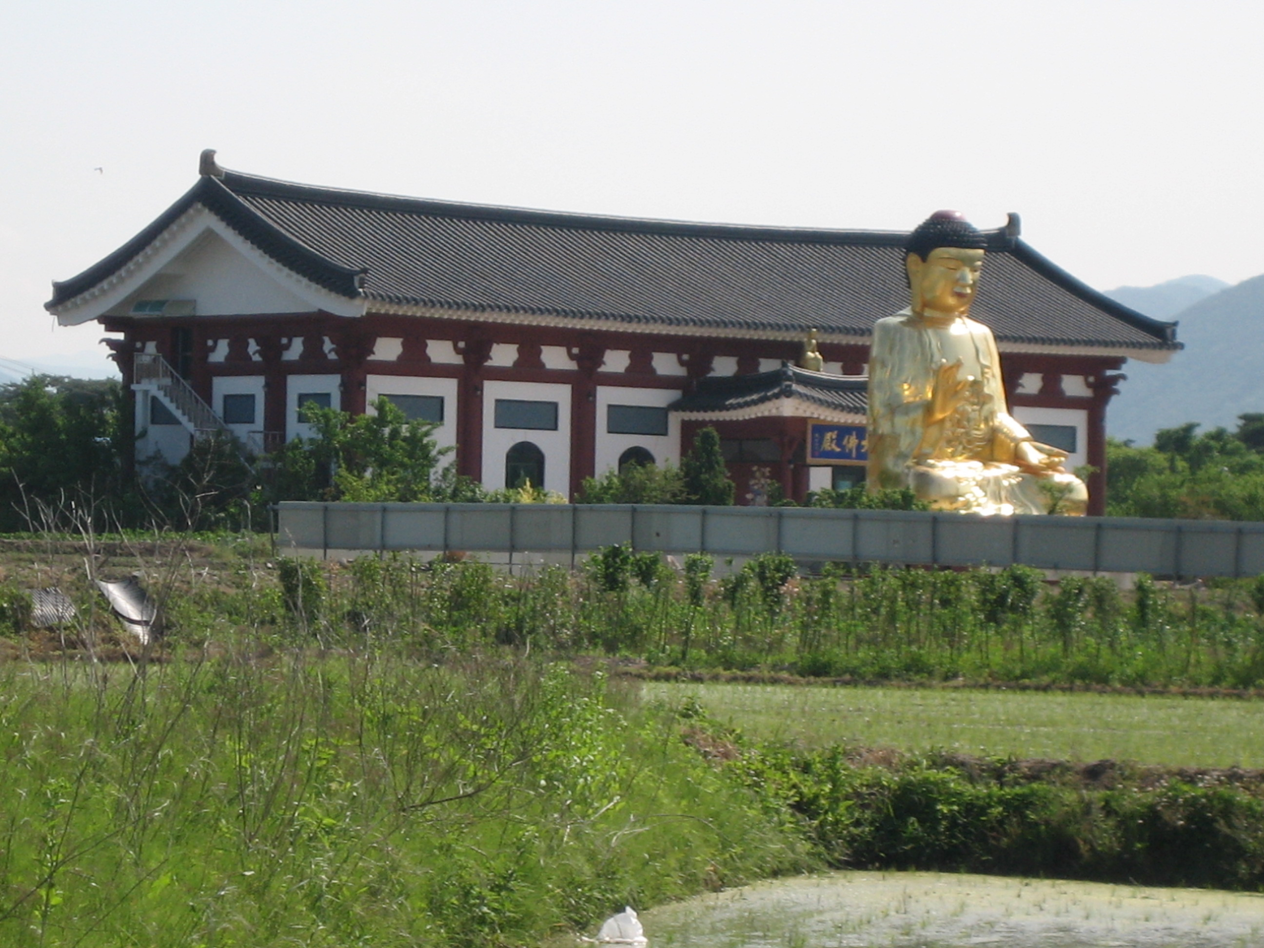 A view of Gyeongju, North Gyeongsang province, South Korea